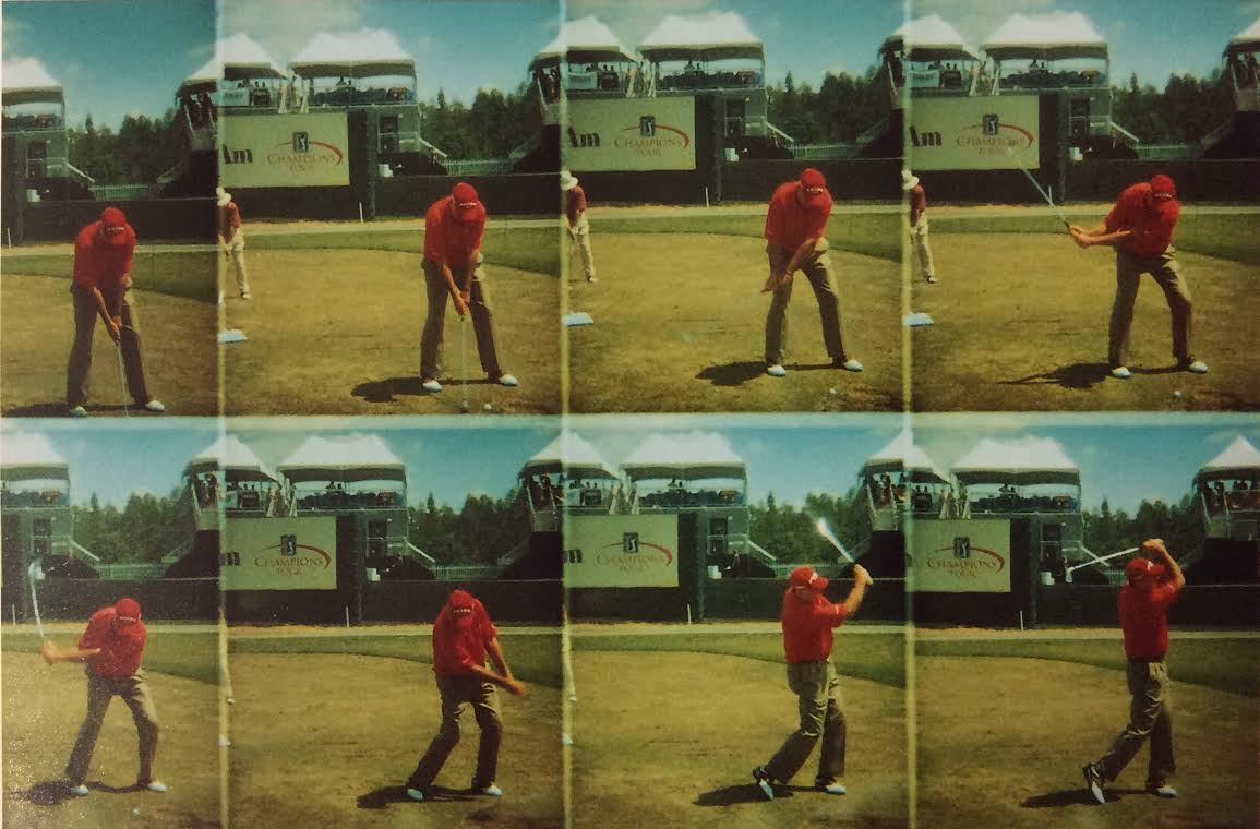 This is the golf swing of PGA Professional Allen Doyle taken at the Champion's Tour Outback Golf Tournament event in 2009.